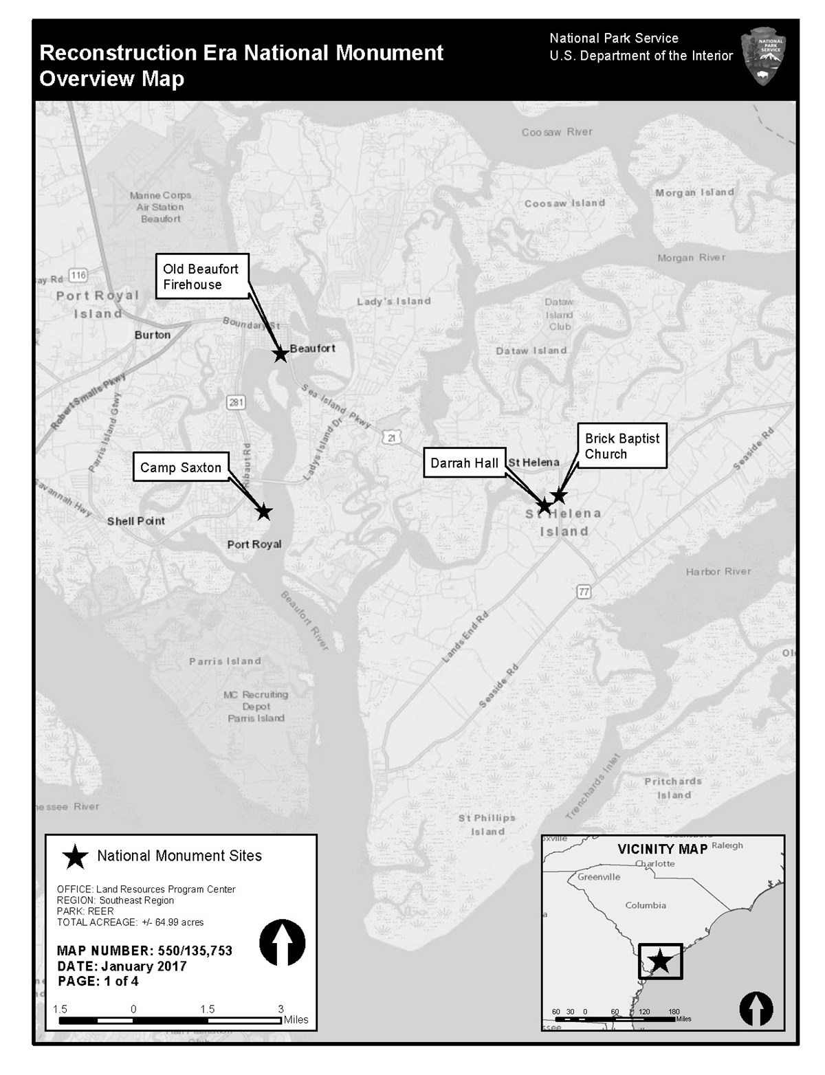 Map of Reconstruction Era National Monument, vicinity of Beaufort, South Carolina